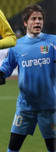 Lasse Schöne